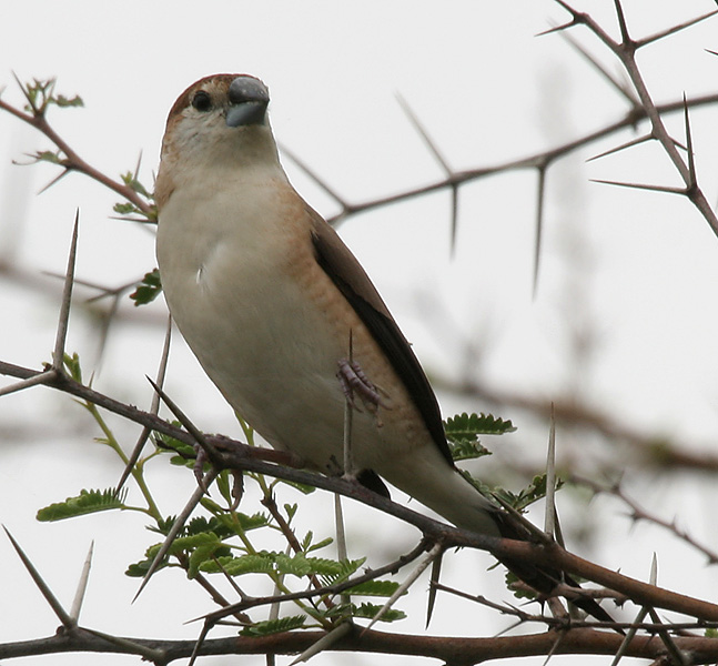 Indian Silverbill or White-throated Munia Lonchura malabarica - Hindi: Charchara, Charga, Charakka, Pidda, Pun: Chittgali munia, Ben: Piduri, Sar munia, Guj: Pavai munia, Munia, Tapushiyu, Sweth kanth tapushiyu, Mar: Malmunia, Ta: Nellu-kuruvi, Te: Jinuwayi, Mal: Vayalatta, Kan: Bili kantada munia, Sinh: Wee-kurulla- at Pocharam lake, Andhra Pradesh, India.